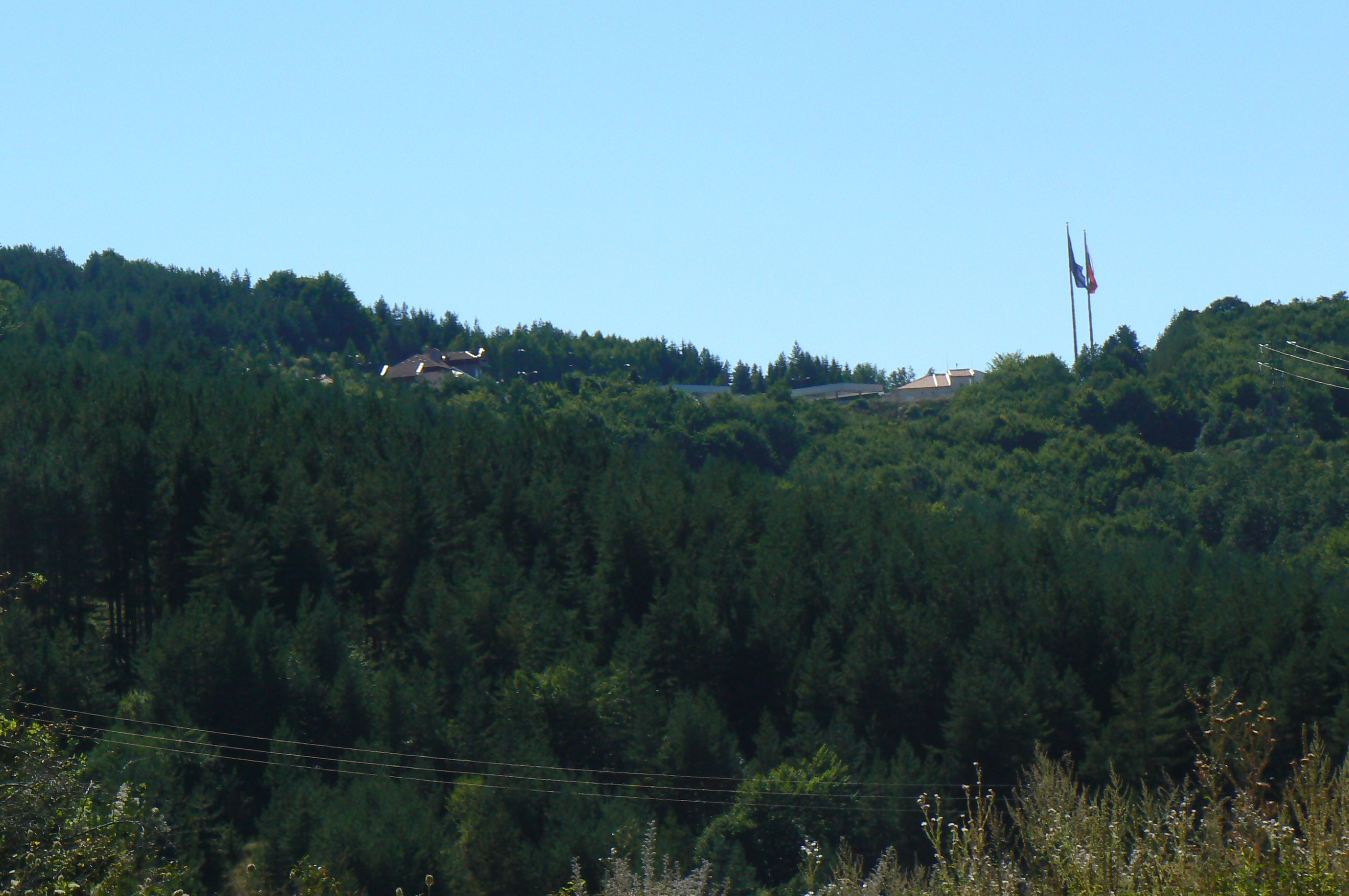 Border checkpoint Gyeshevo between Bulgaria and Republic of Macedonia